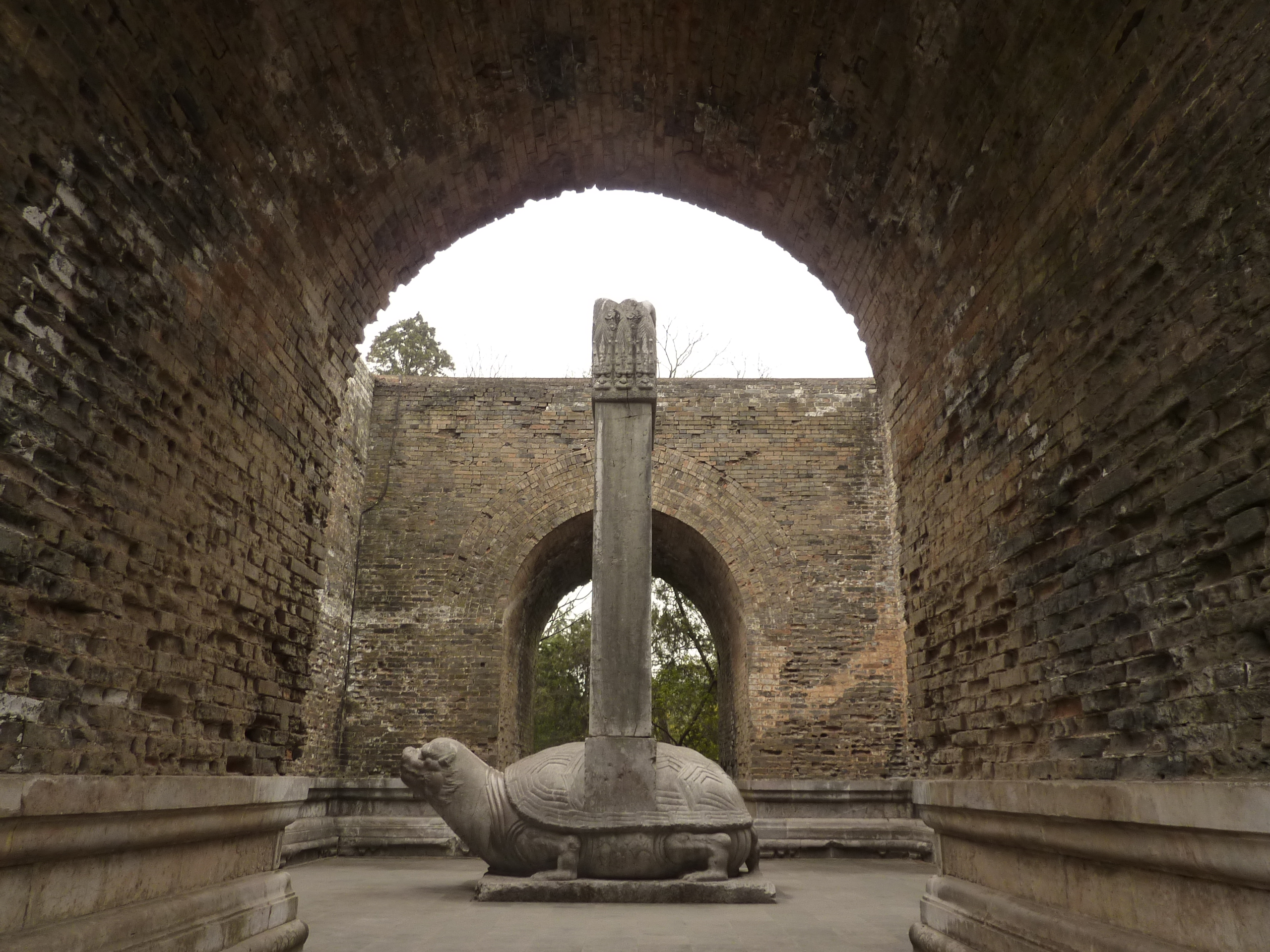 The Sifangcheng Pavilion of the Ming Xiaoling Mausoleum in Nanjing. The pavilion houses the great bixi tortoise, holding the dragon-topped Shendong Shengde ("Divine Merits and Godly Virtues") stele, which was erected by the Yongle Emperor in 1413 in honor of his father, the Hongwu Emperor. View from the east, i.e. from the tortoise's left.